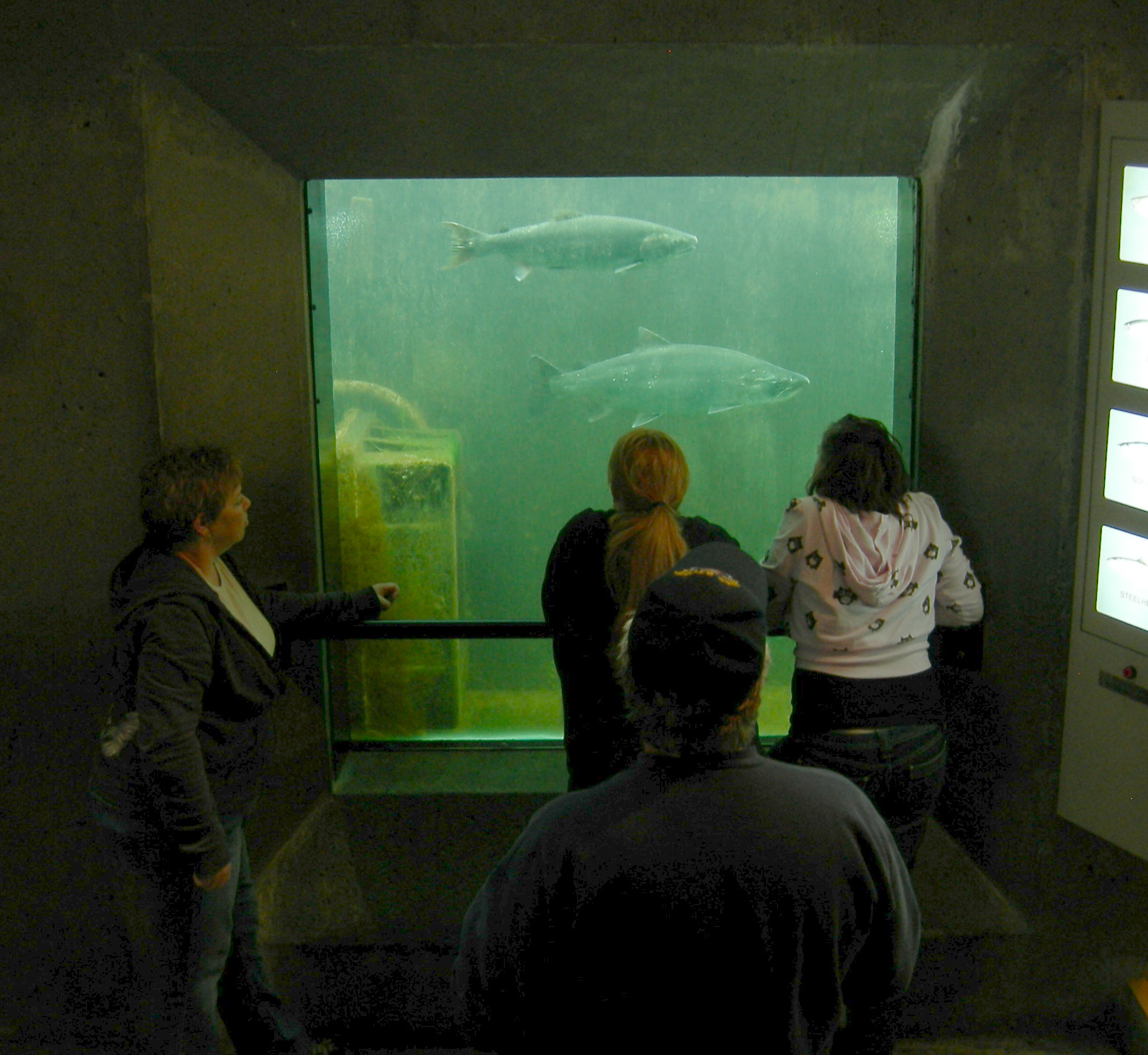 Viewing room, fish ladder, Hiram M. Chittenden Locks, Seattle, Washington, USA.